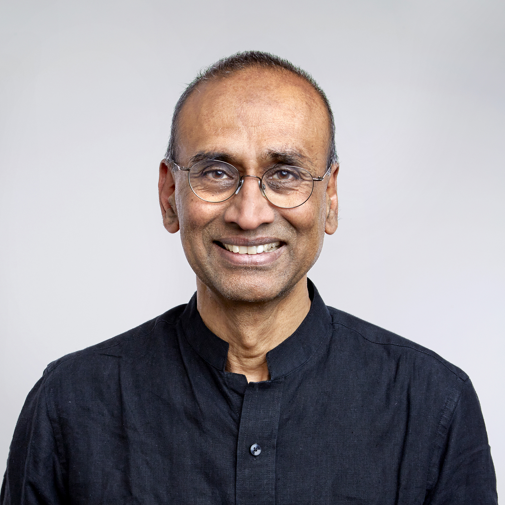 Scientist Venkatraman Ramakrishnan, 2009 Nobel prize winner in chemistry, 2015 portrait. Attribution: The Royal Society